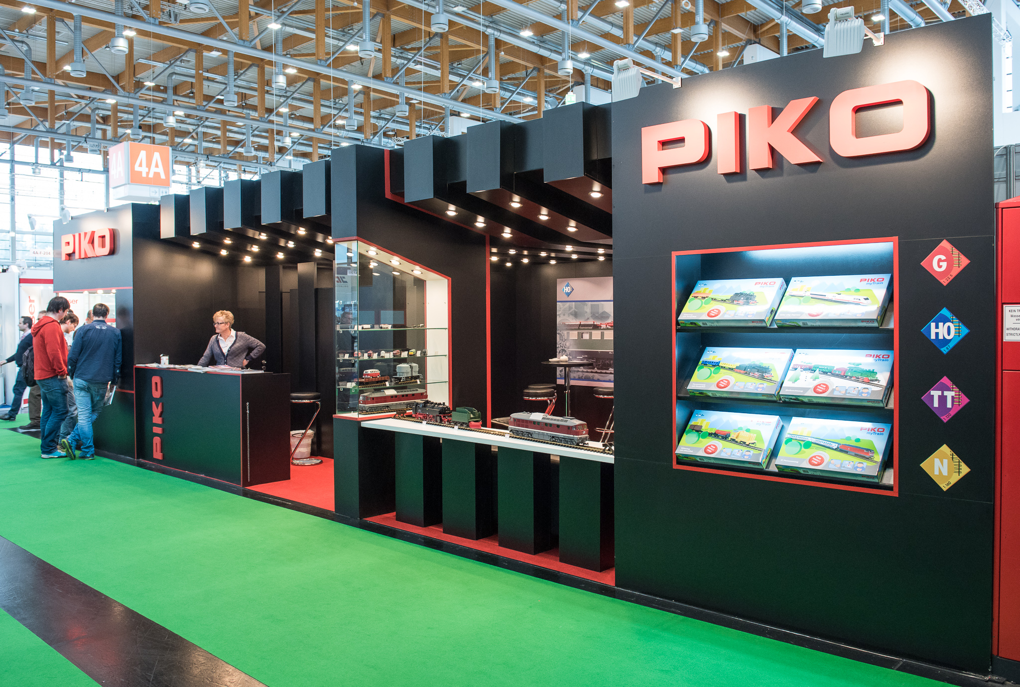 International Toy Fair Nürnberg,Messestand,Piko,Spielwarenmesse